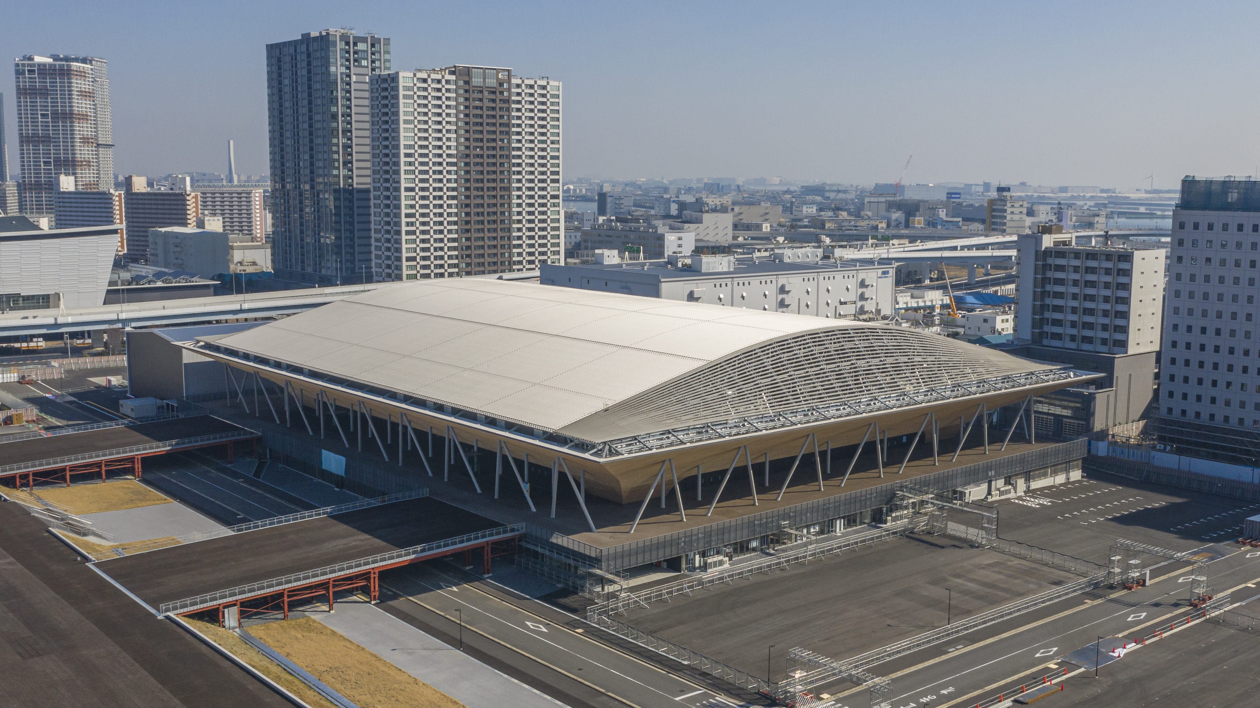 Aerial view of Ariake Gymnastics Centre, Tokyo, Japan